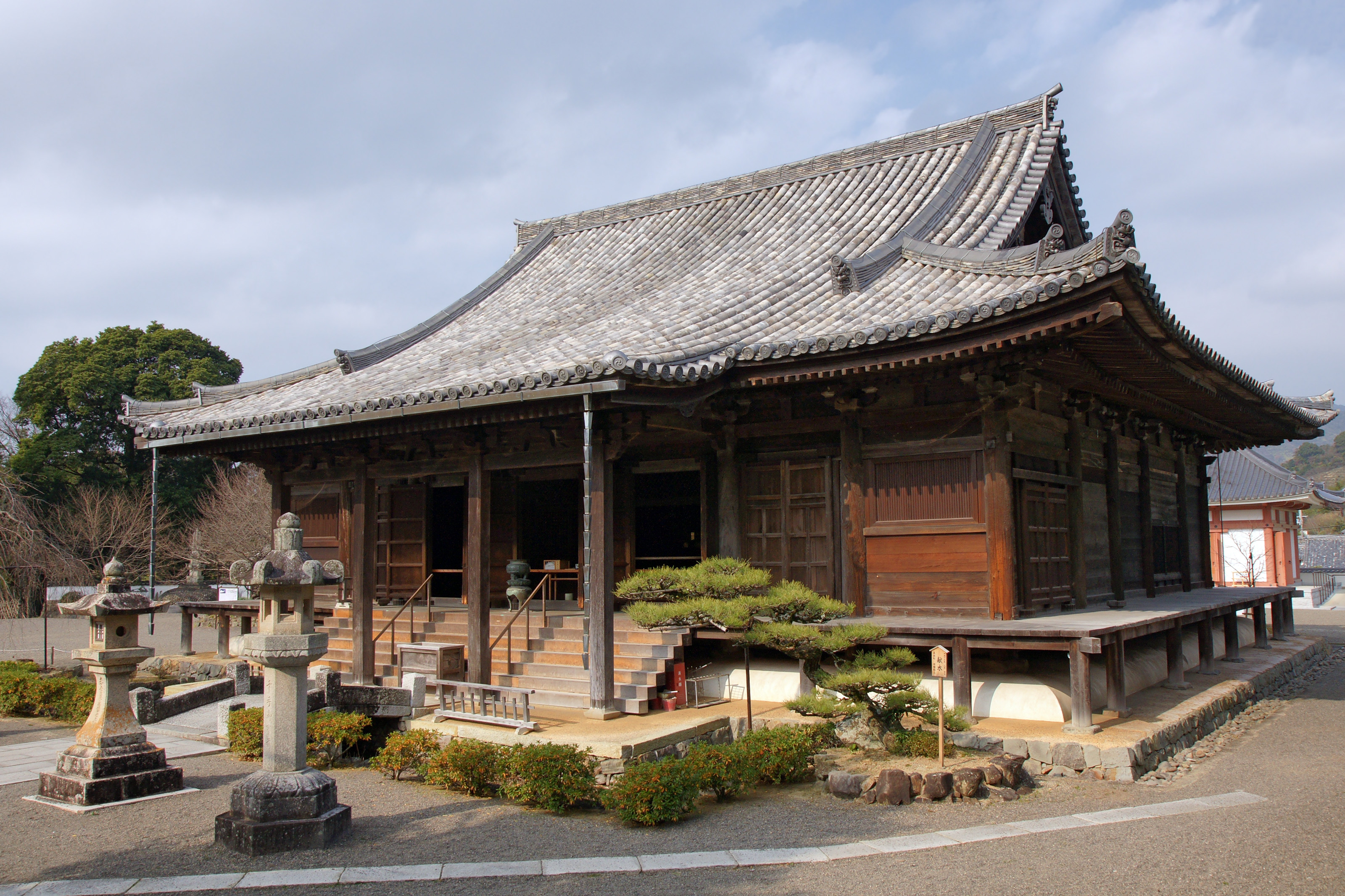 Dojoji, Hidakagawa, Wakayama prefecture, Japan